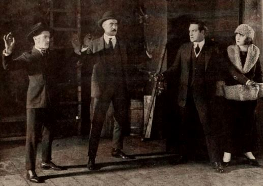 Still from the American film serial The Great Gamble (1919) with Charles Hutchison and Anna Luther, on page 38 of the July 12, 1919 Exhibitors Herald.